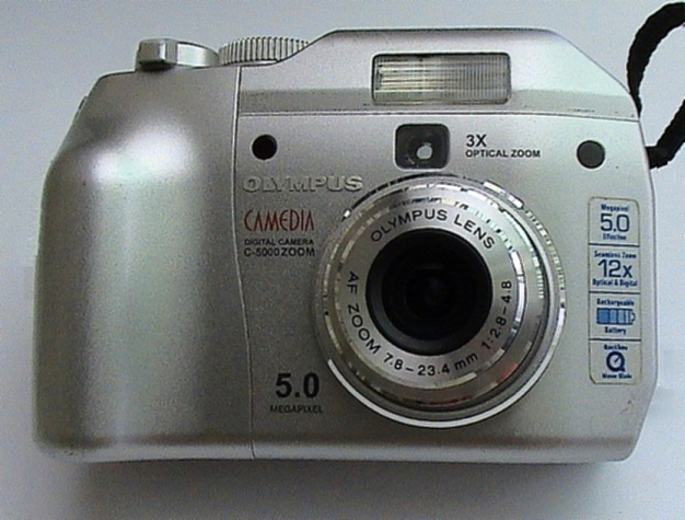 Digital camera Olympus Camedia C-5000 Zoom